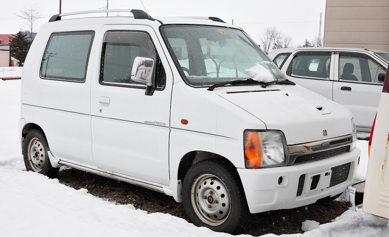 Autozam AZ-Wagon by Mazda ZV Turbo 4WD ( CZ21S, '95-10 ~ '97-05 )